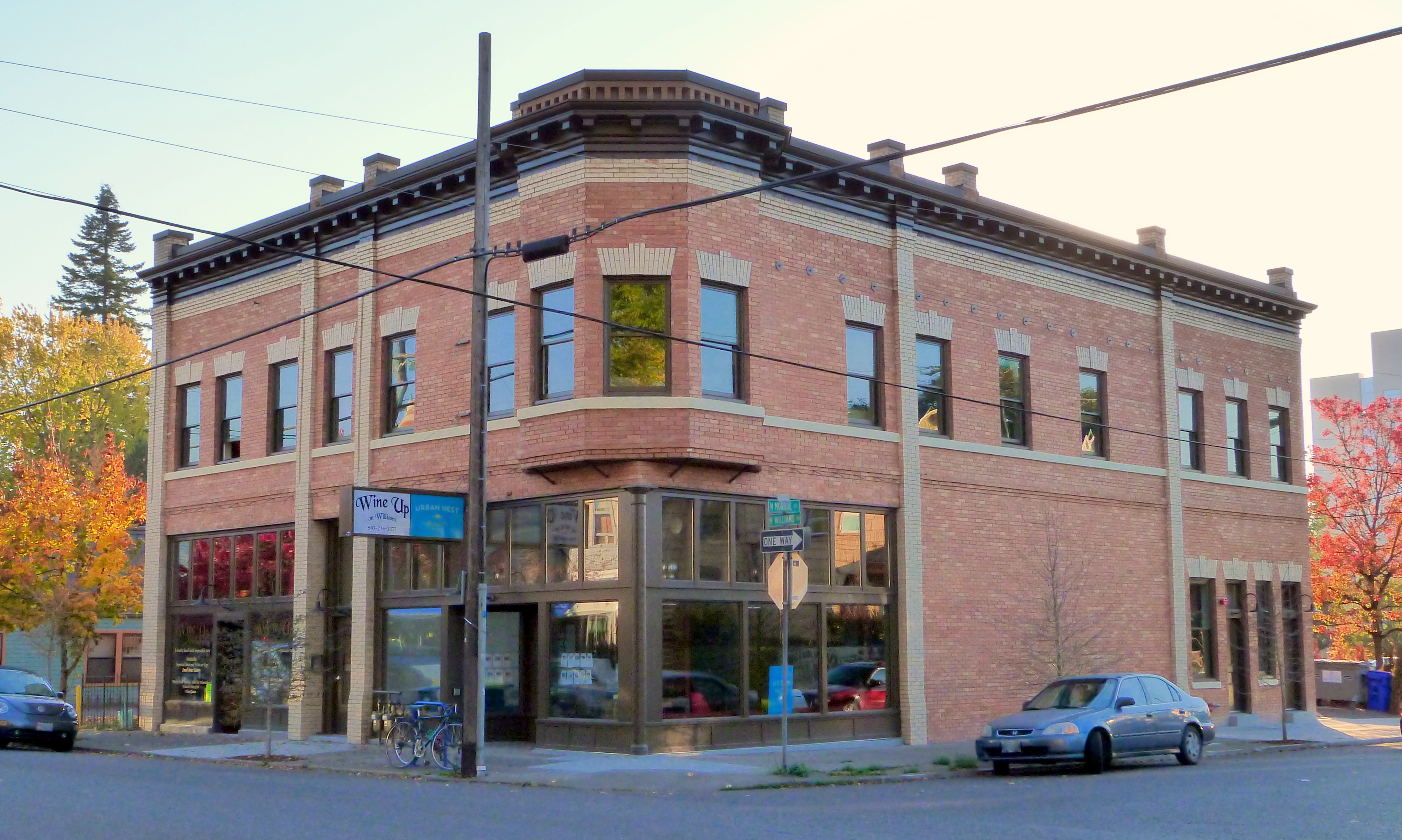 The historic Rinehart Building, located at 3037-3041 North Williams Avenue in Portland, Oregon, United States, is listed on the US National Register of Historic Places.